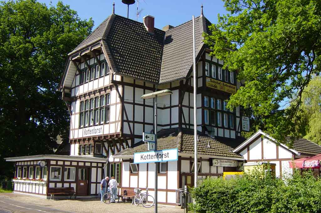 Kottenforst station in Meckenheim near Bonn, viewed from the platform.